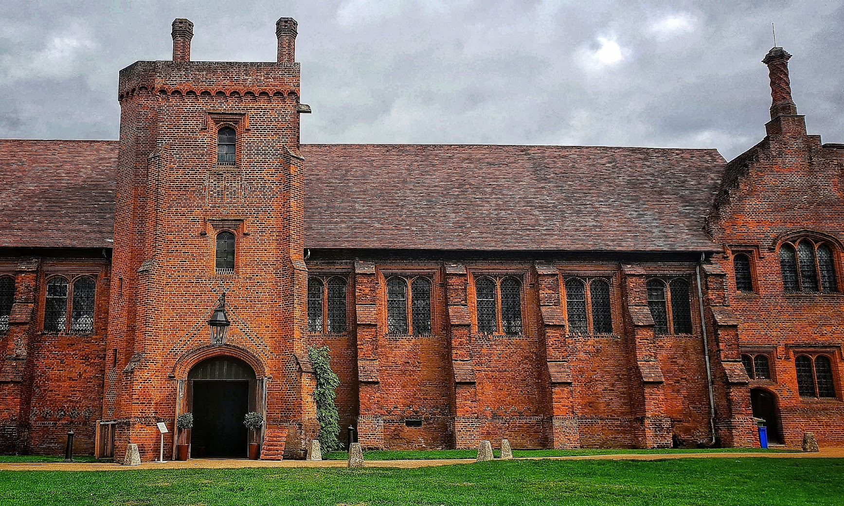 Close view of Hatfield Old Palace from the side facing the modern town, showing Tudor brickwork.